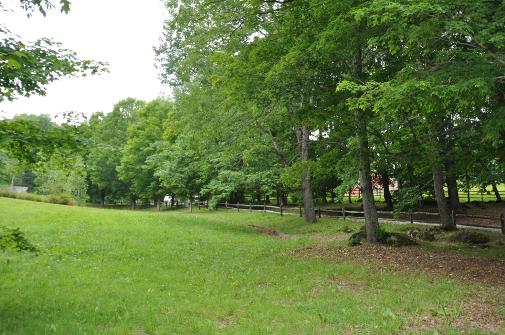 Landscape view of Uphill Farm in Woodstock, Vermont, listed on the National Register as the Isaac M. Raymond Farm.